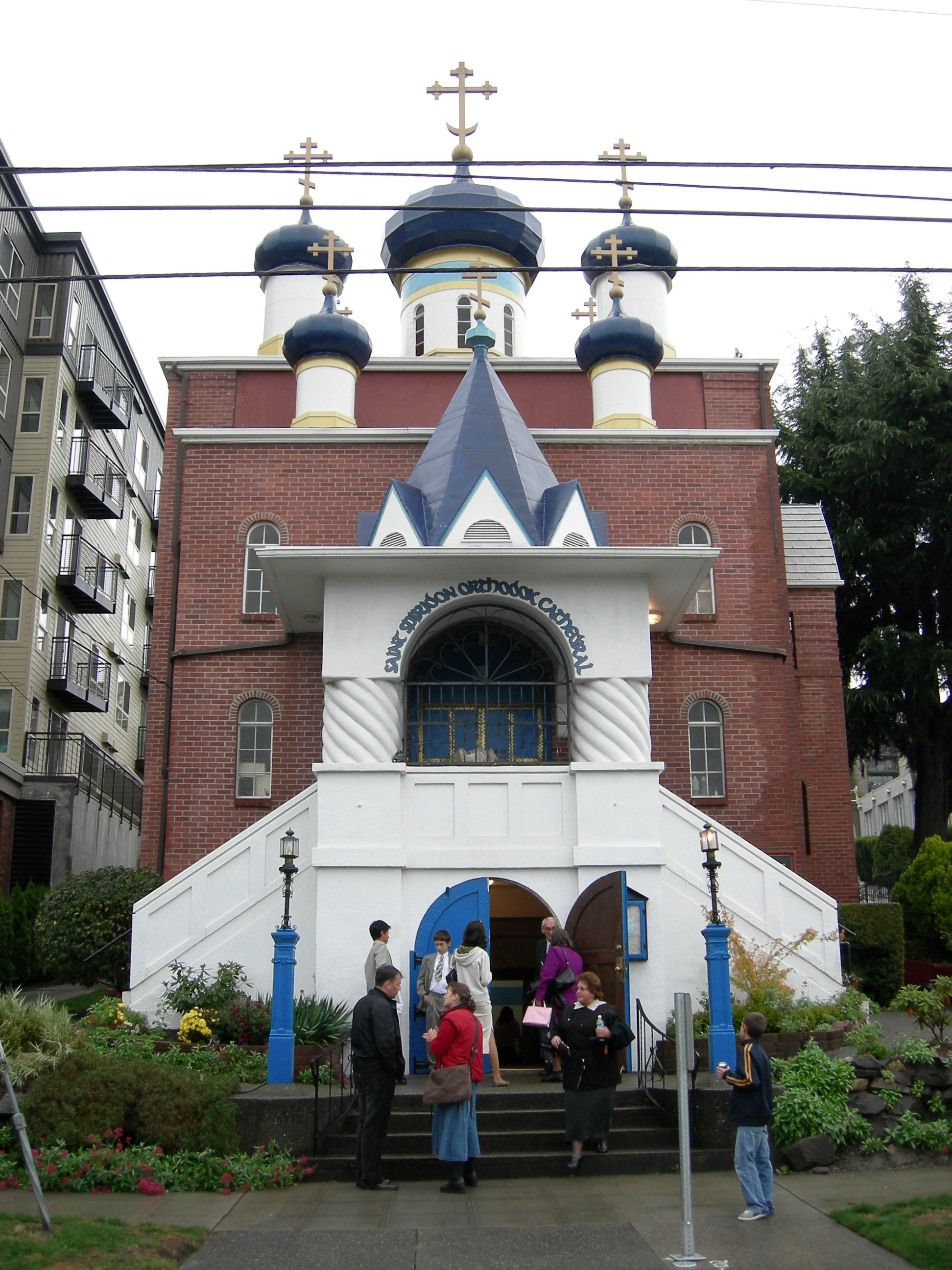 St. Spiridon Russian Orthodox Cathedral, also known as Greek Catholic Cathedral of St. Spiridon (affiliated with Orthodox Church in America), Seattle, Washington, USA. An official Seattle city landmark.